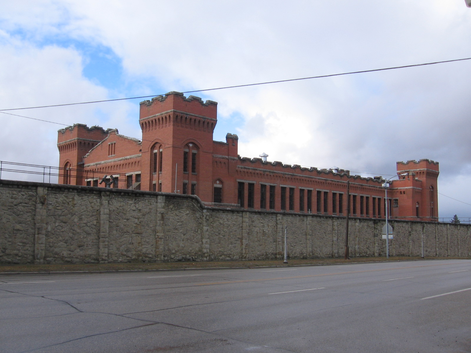 1912 Cellblock from Main Street Deer Lodge